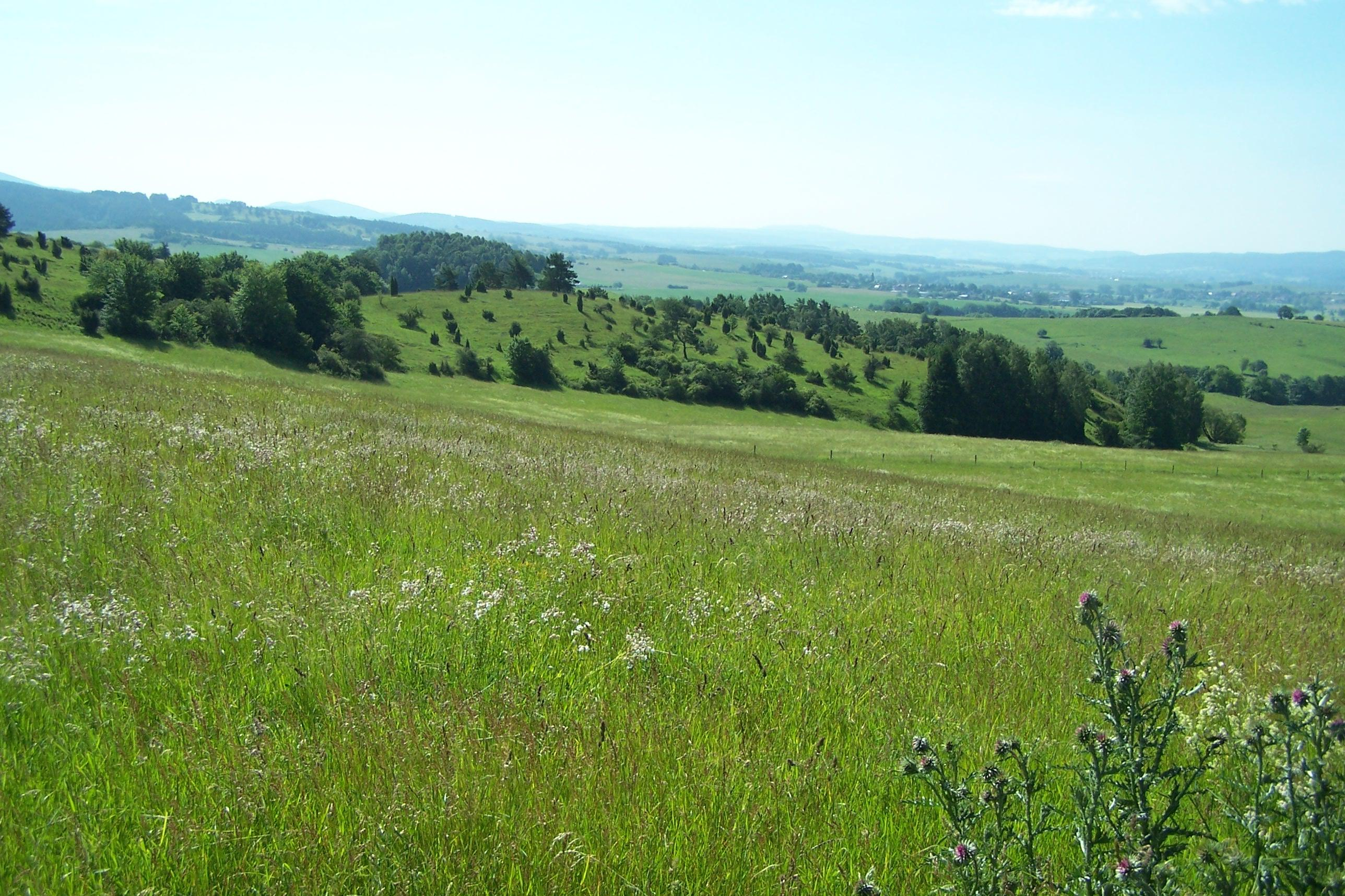 The Wacholderheide near Möhra.